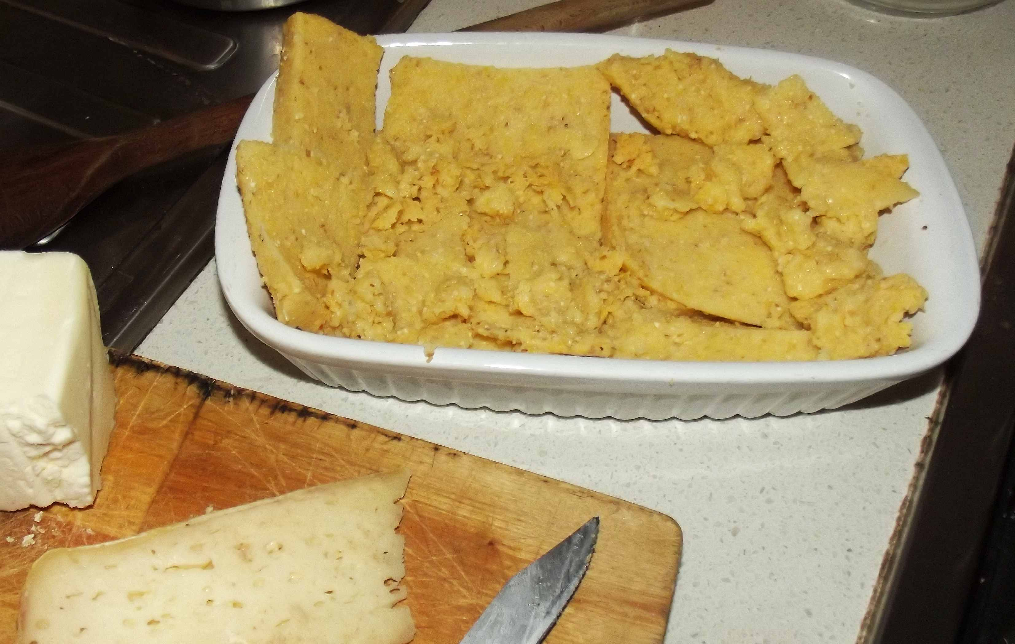 Polenta to be backed with butter and Maccagno cheese